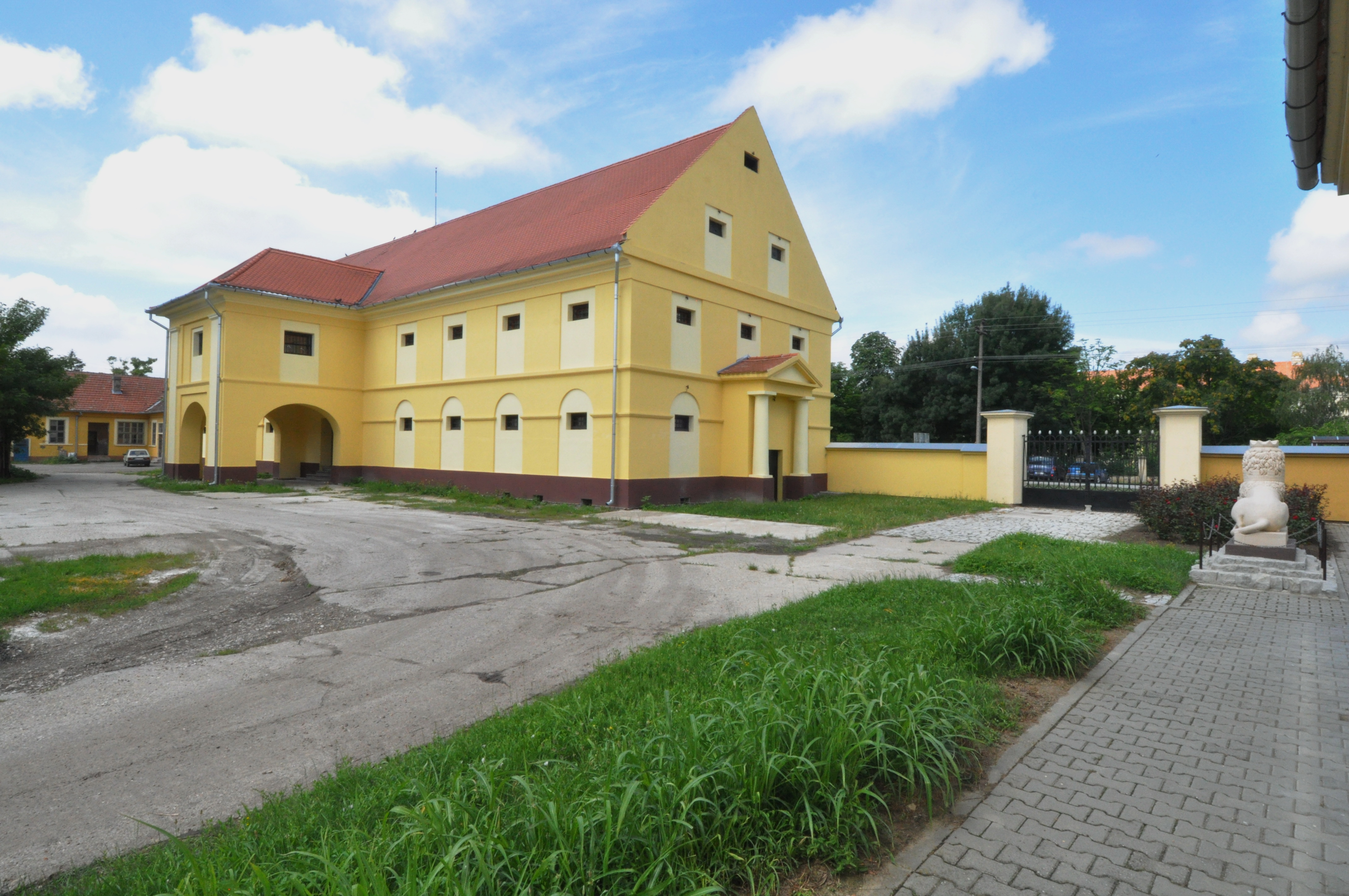 Grain warehouse in Novo Miloševo - yard Српски (ћирилица): Žitni magacin u Novom Miloševu - dvorište